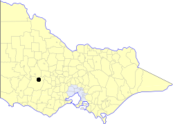 Location of the former City of Ararat within Victoria.